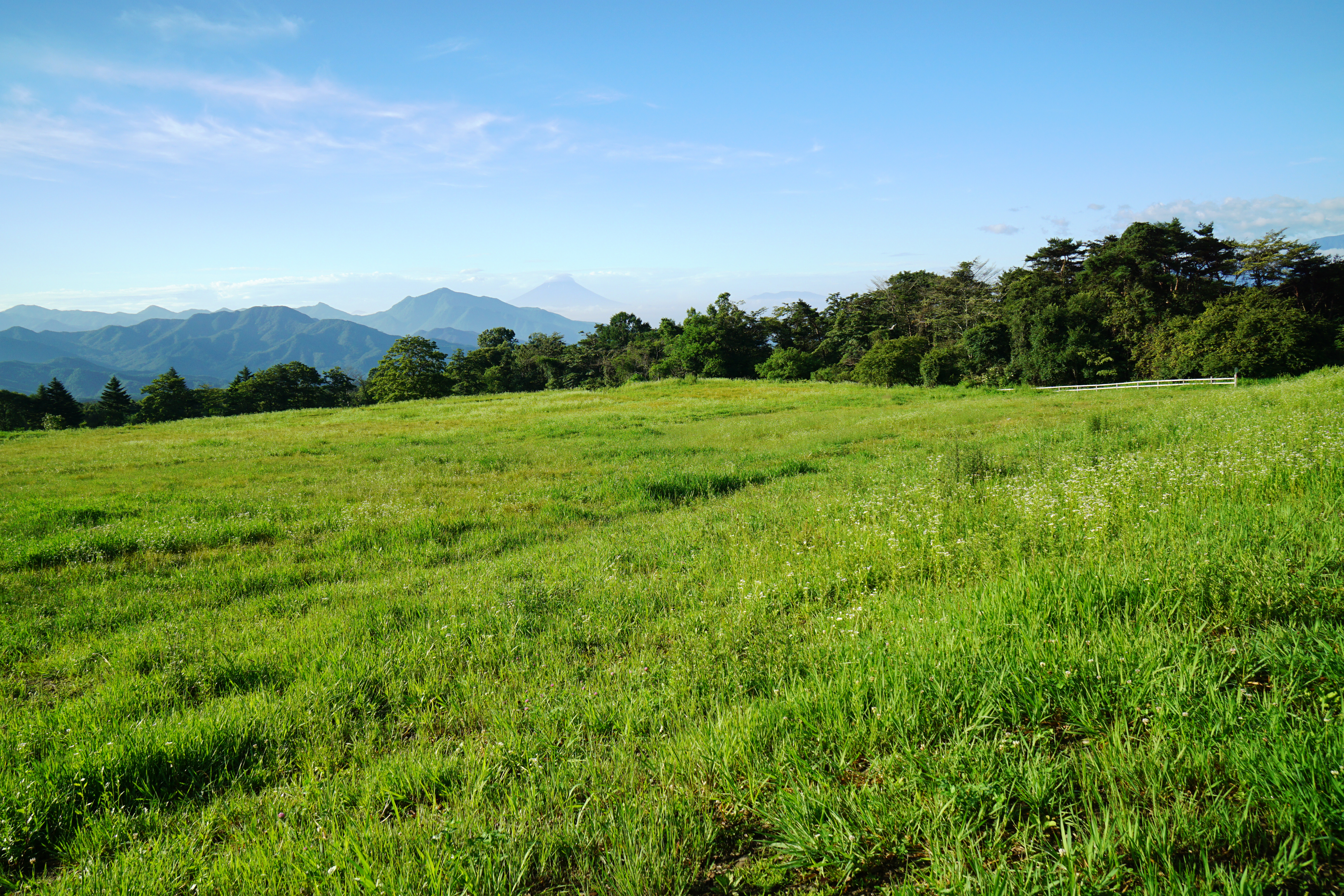 Seisen-ryo in Hokuto, Yamanashi prefecture, Japan.